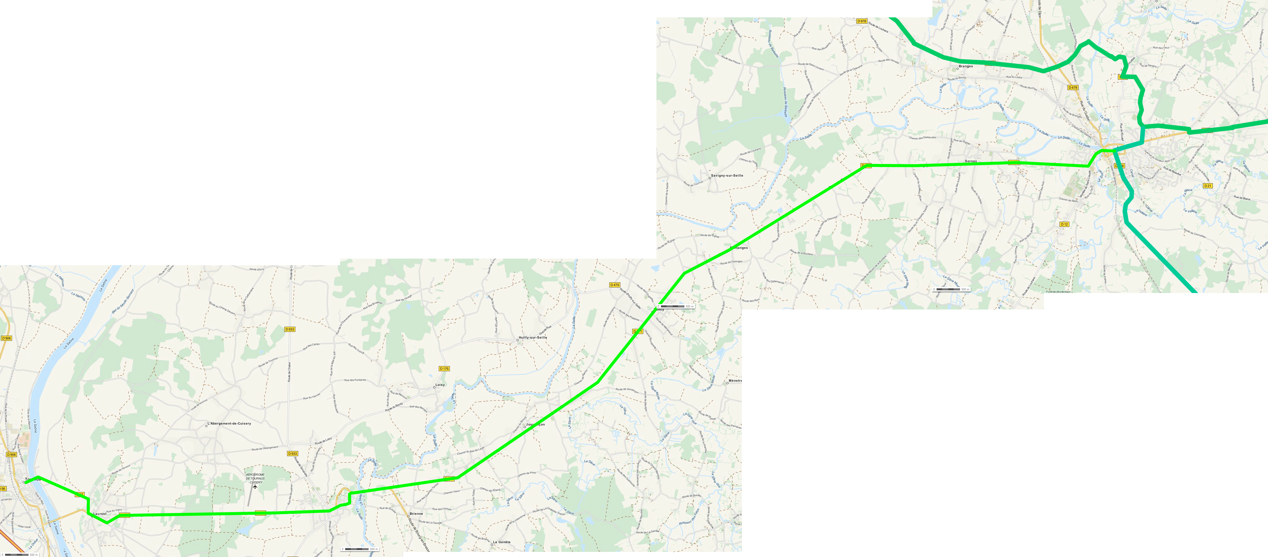 Karte der Römerstraße Louhans - Tournus Carte de la voie romaine de Louhans à Tournus This map may be incomplete, and may contain errors. Don't rely solely on it for navigation.